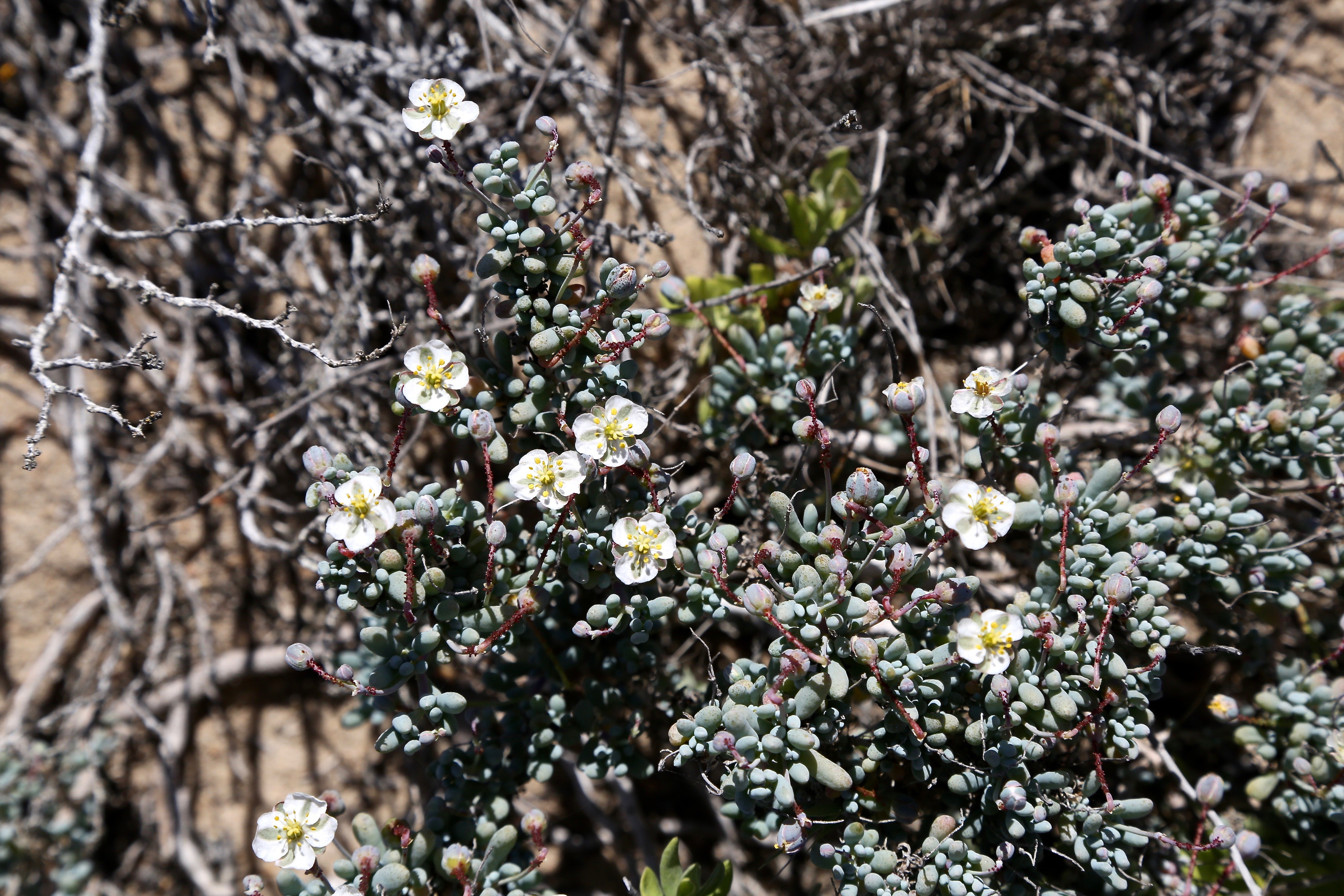 Сoastline of Namaqua National Park, Namaqualand Coastal Dune Strandveld, Northern Cape, South Africa